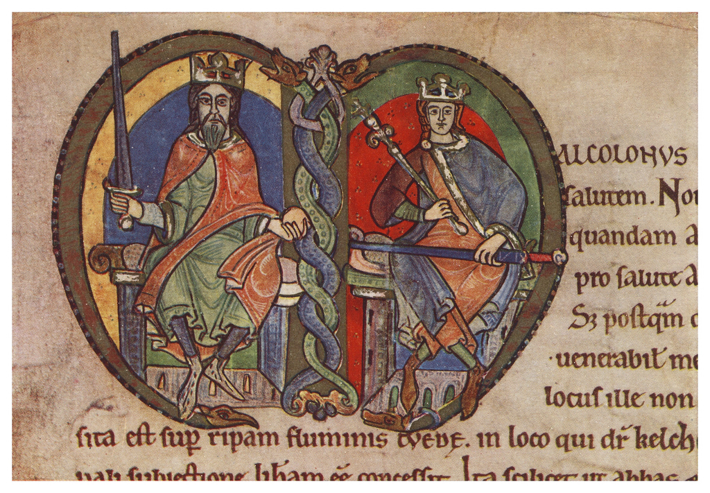 Detail from the charter of Malcolm IV, King of Scotland to Kelso Abbey.